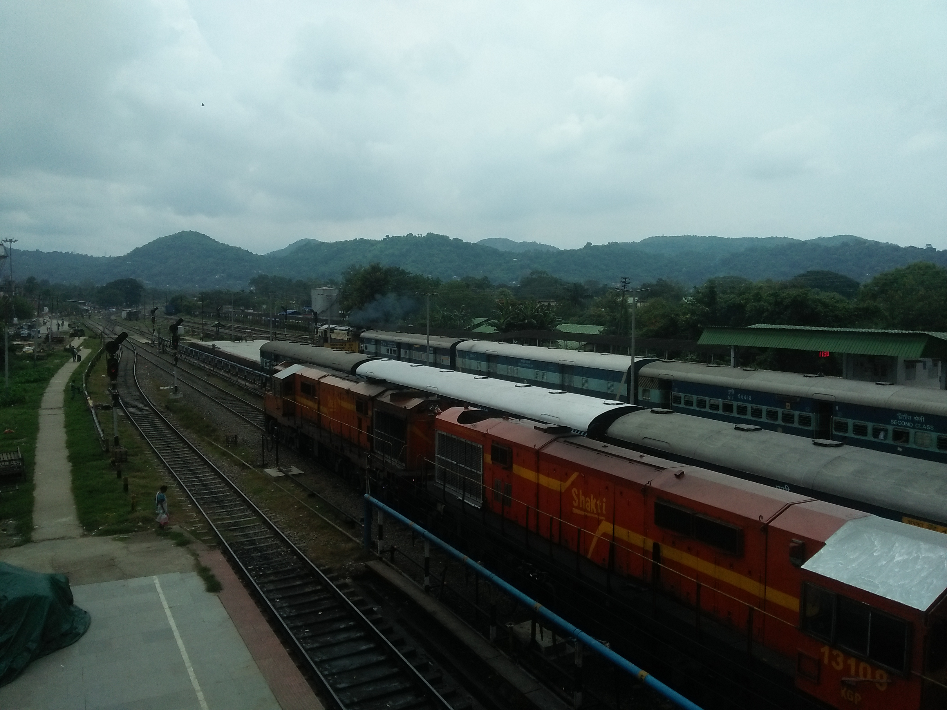 Picture of Kamakhya junction railway station